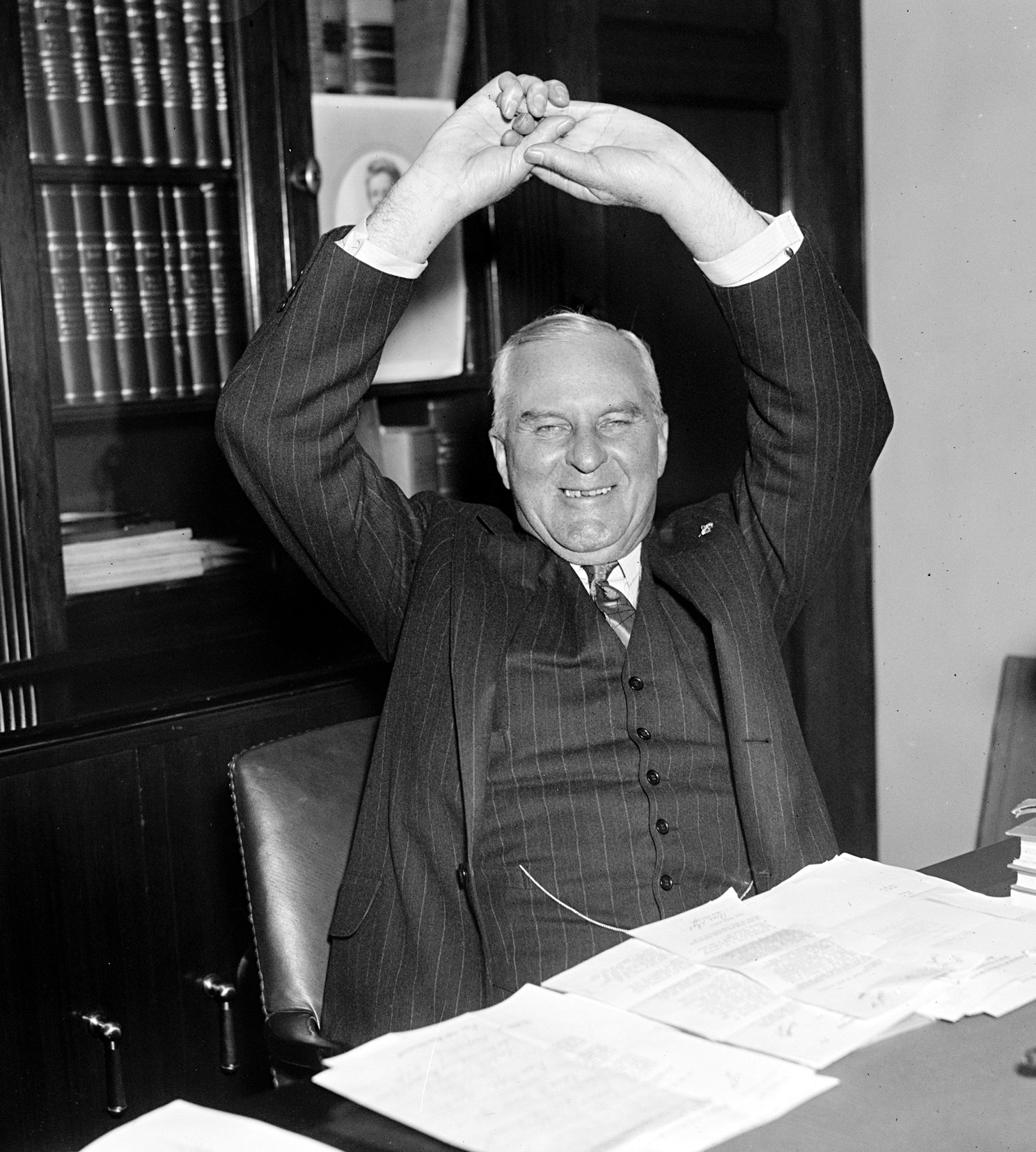 Arthur B. Jenks, US Representative from New Hampshire, cheering after his victory over Alphonse Roy